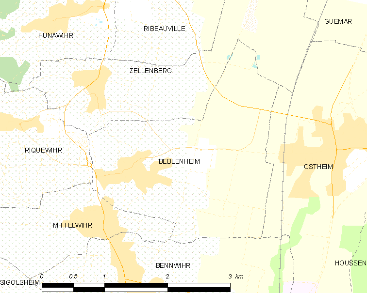 Map of French municipality